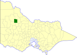 Location of the Shire of Birchip within Victoria.